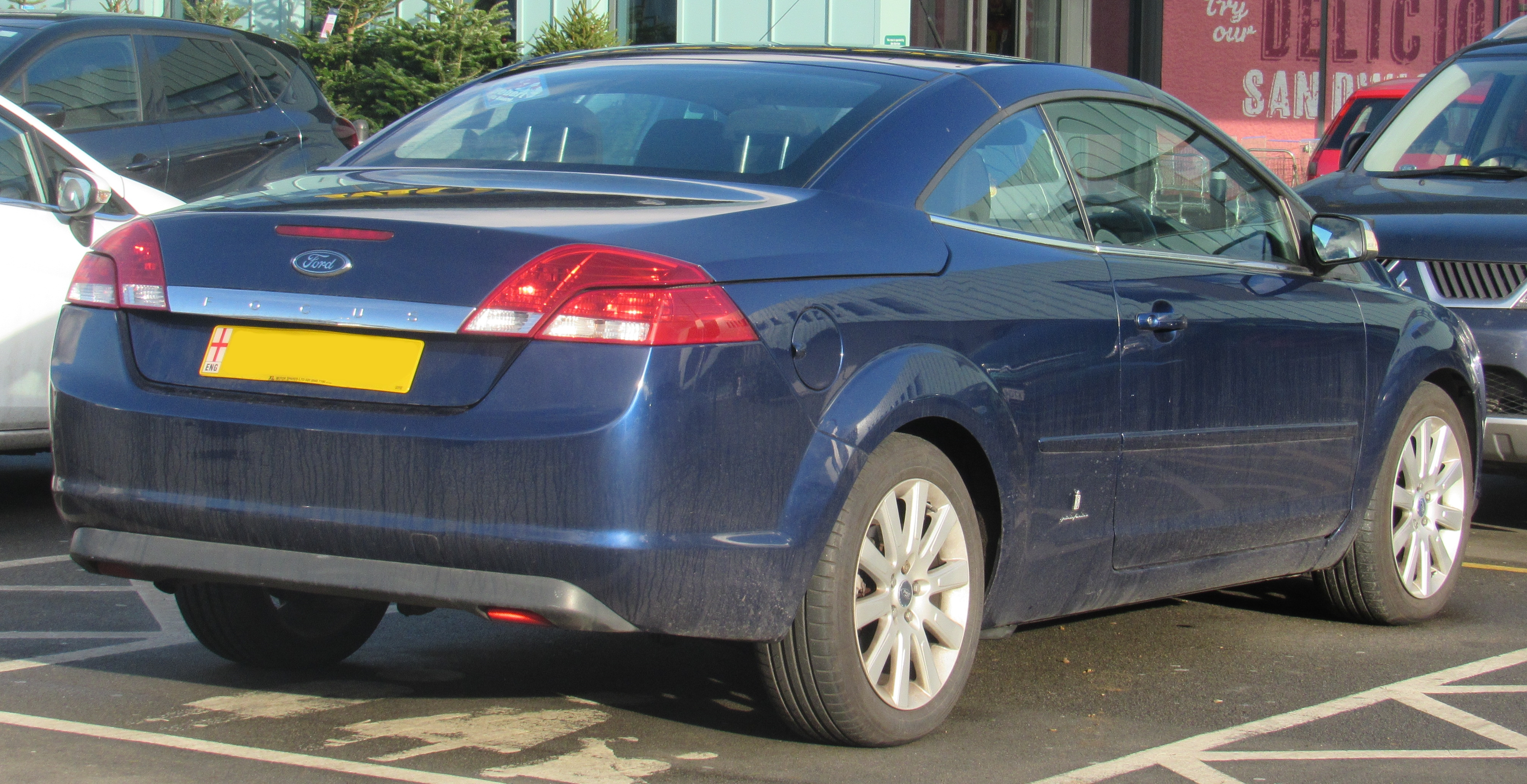 2009 Ford Focus CC-2 Automatic 2.0 Rear Taken in Leamington Spa